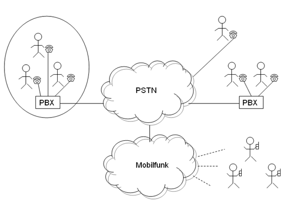 conventional private automatic branch exchange